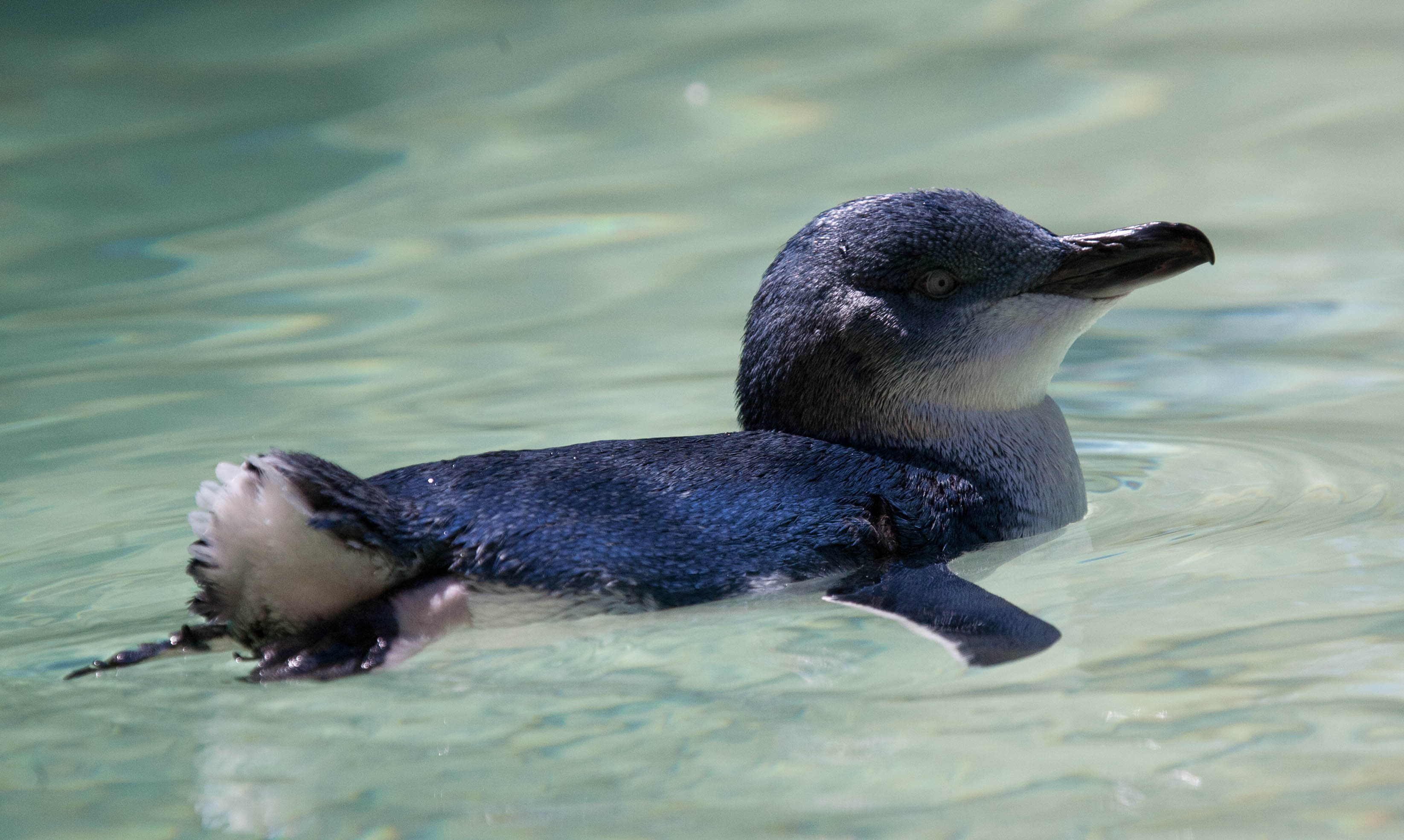 A Little Penguin (also called Blue Penguin and Fairy Penguin) at Perth Zoo, Australia. Subspecie identification is from zoo listing.